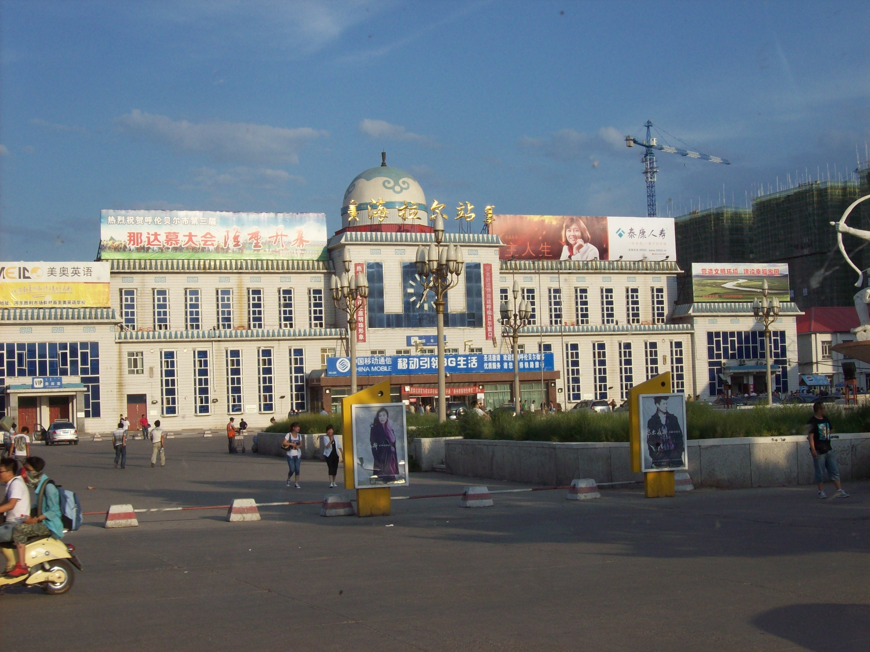 201207 Old Facade of Hailaer (Hailar) Railway Station